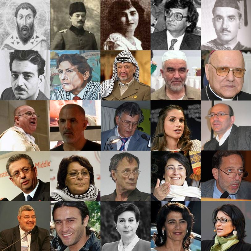 Notable Palestinians.